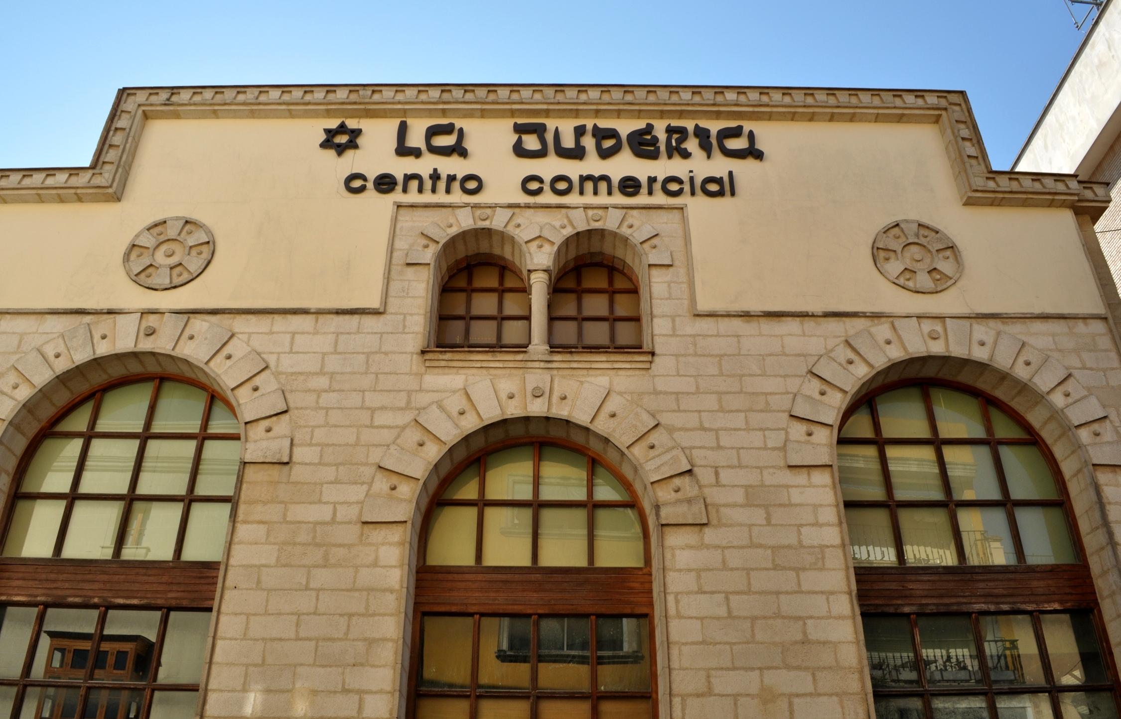 La Juderia Shopping Centre, Jerez